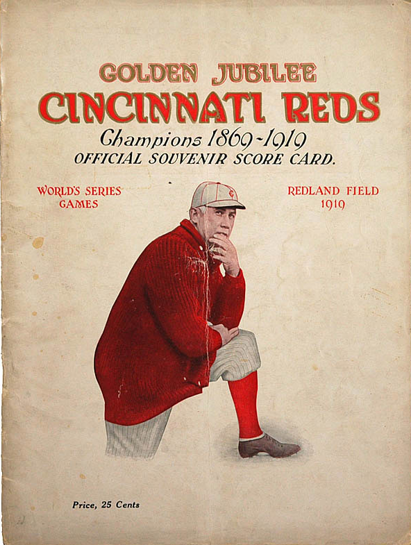 A program from the 1919 World Series